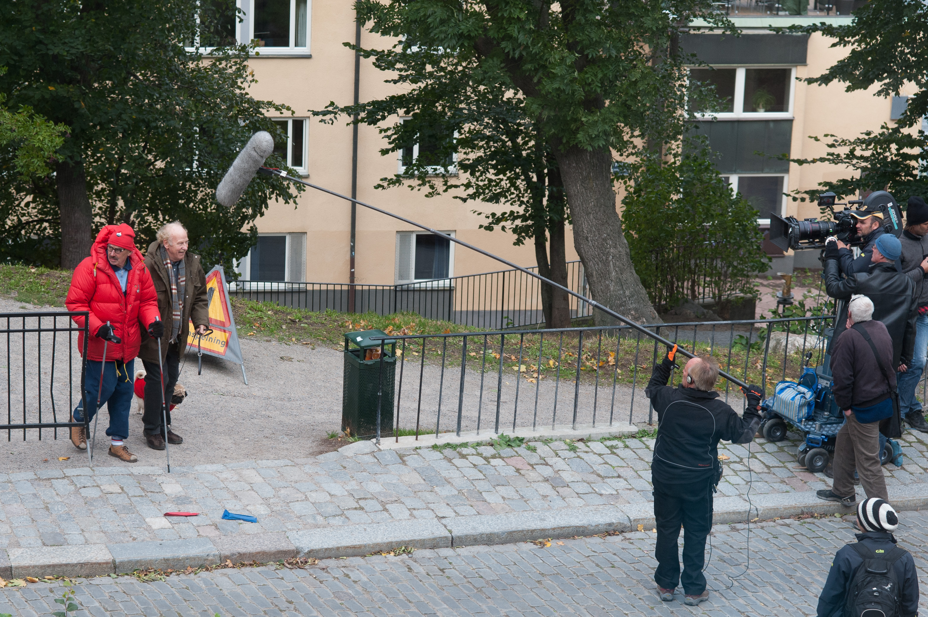 Lasse Åberg and Jon Skolmen at the set of The Stig-Helmer Story, September 2010